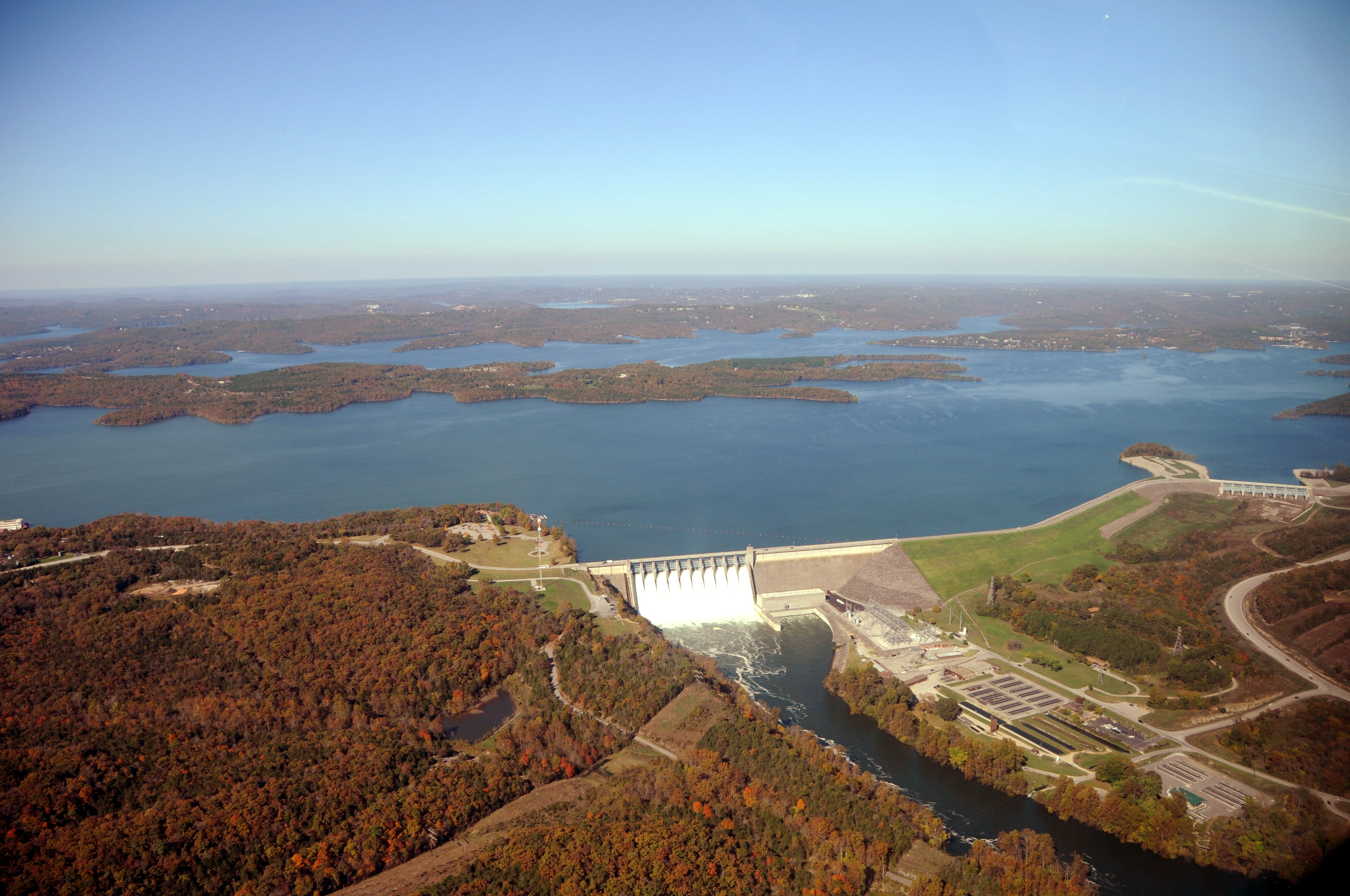 Aerial Photo of Table Rock Lake showing Dam and part of the Main Channel only Oct 24 2009